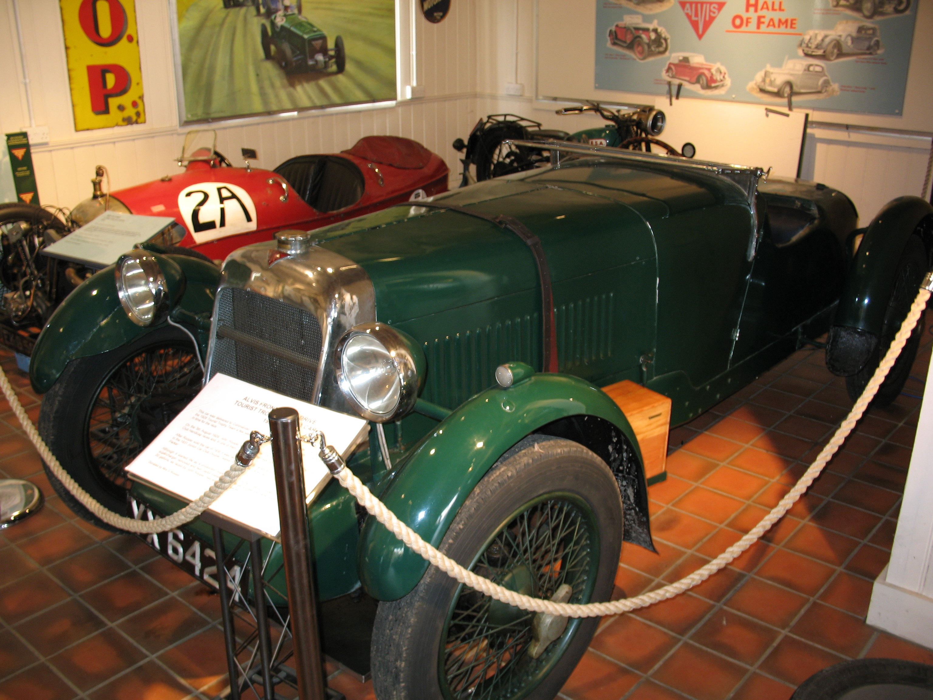 Alvis Front Wheel Drive Tourist Trophy Racing Car 1928 in Brooklands Museum Registration YX 6424 (DVLA) first registered 31 August 1928, 1465cc